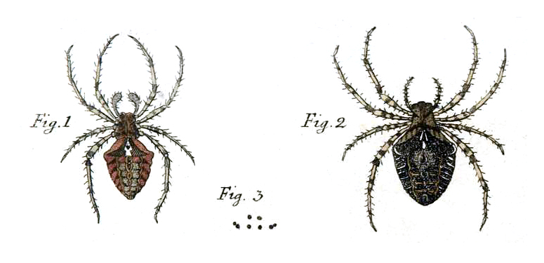 Paintings from the original description of Araneus angulatus by Carl Clerck. figure 1 – male, figure 2 – female, figure 3 – diagram of eyes.